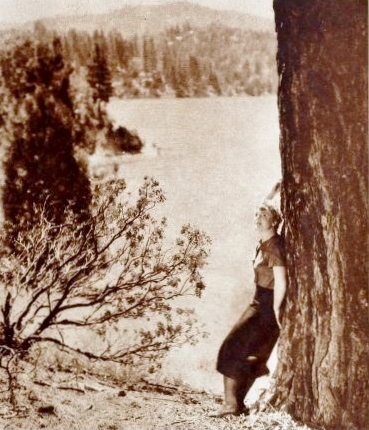 Beverly Roberts in God's Country and the Woman